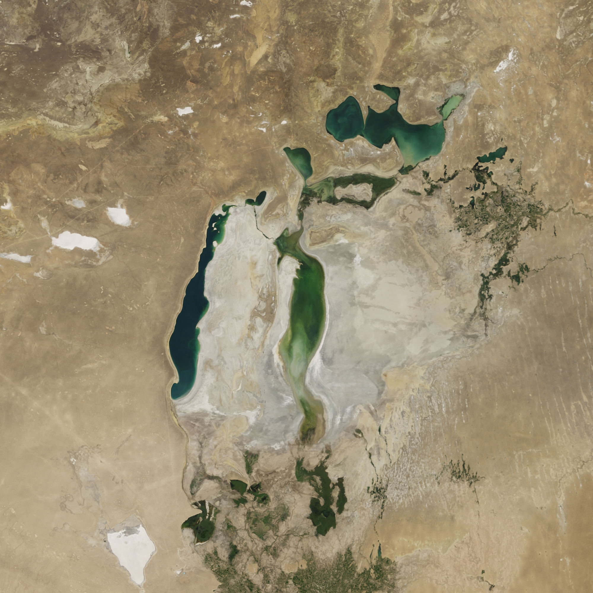 A satellite view of the Aral Sea in Central Asia on August 22, 2017.